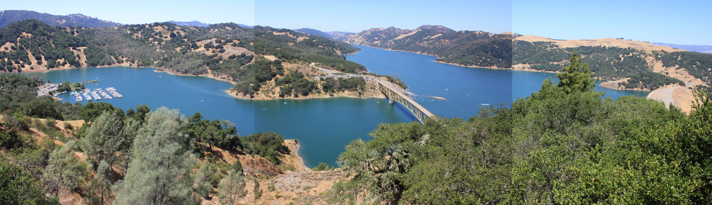 Lake Sonoma, Sonoma County, California